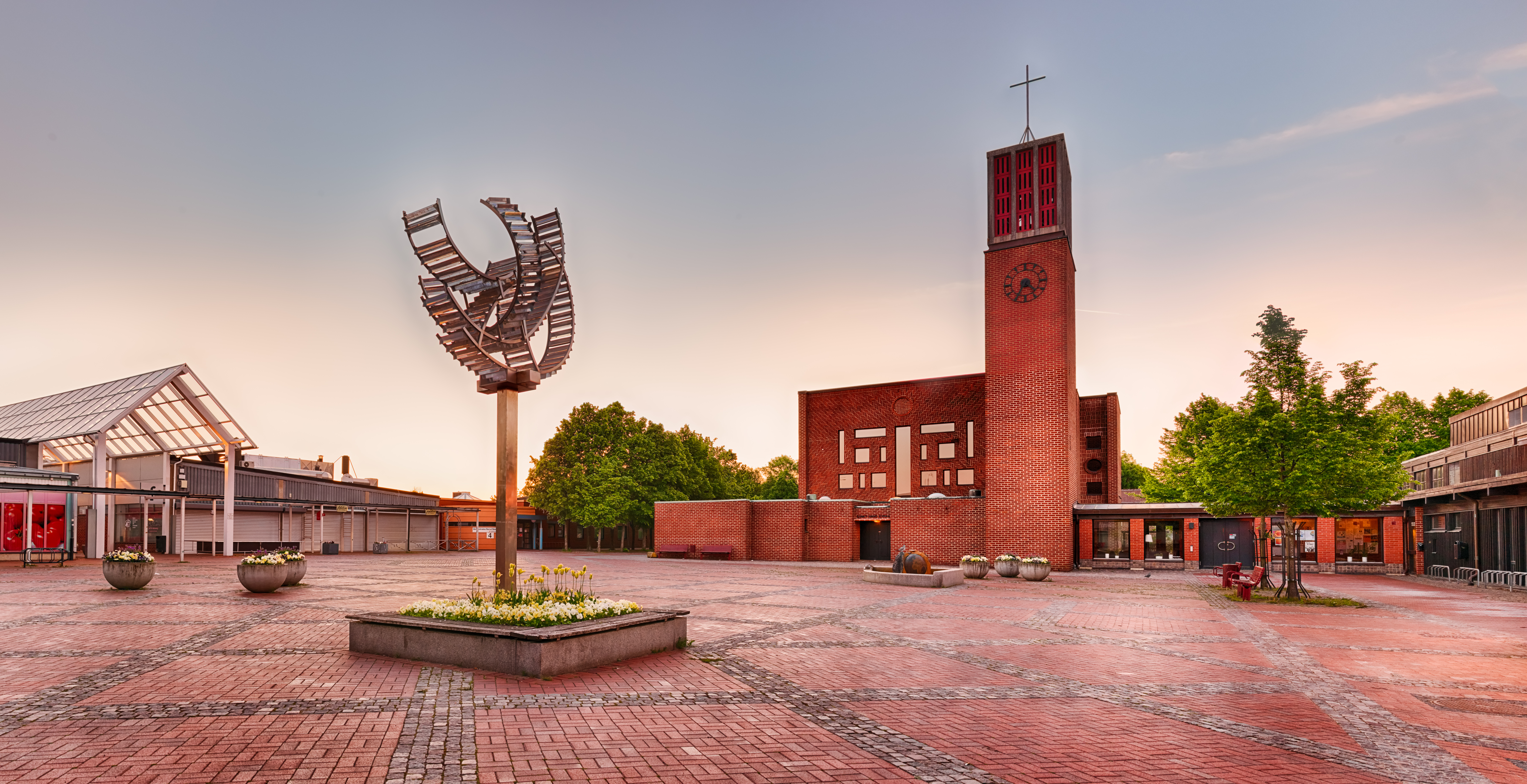 Spaceship sculpture by Edvin Öhrström and the church of Saint Hans.